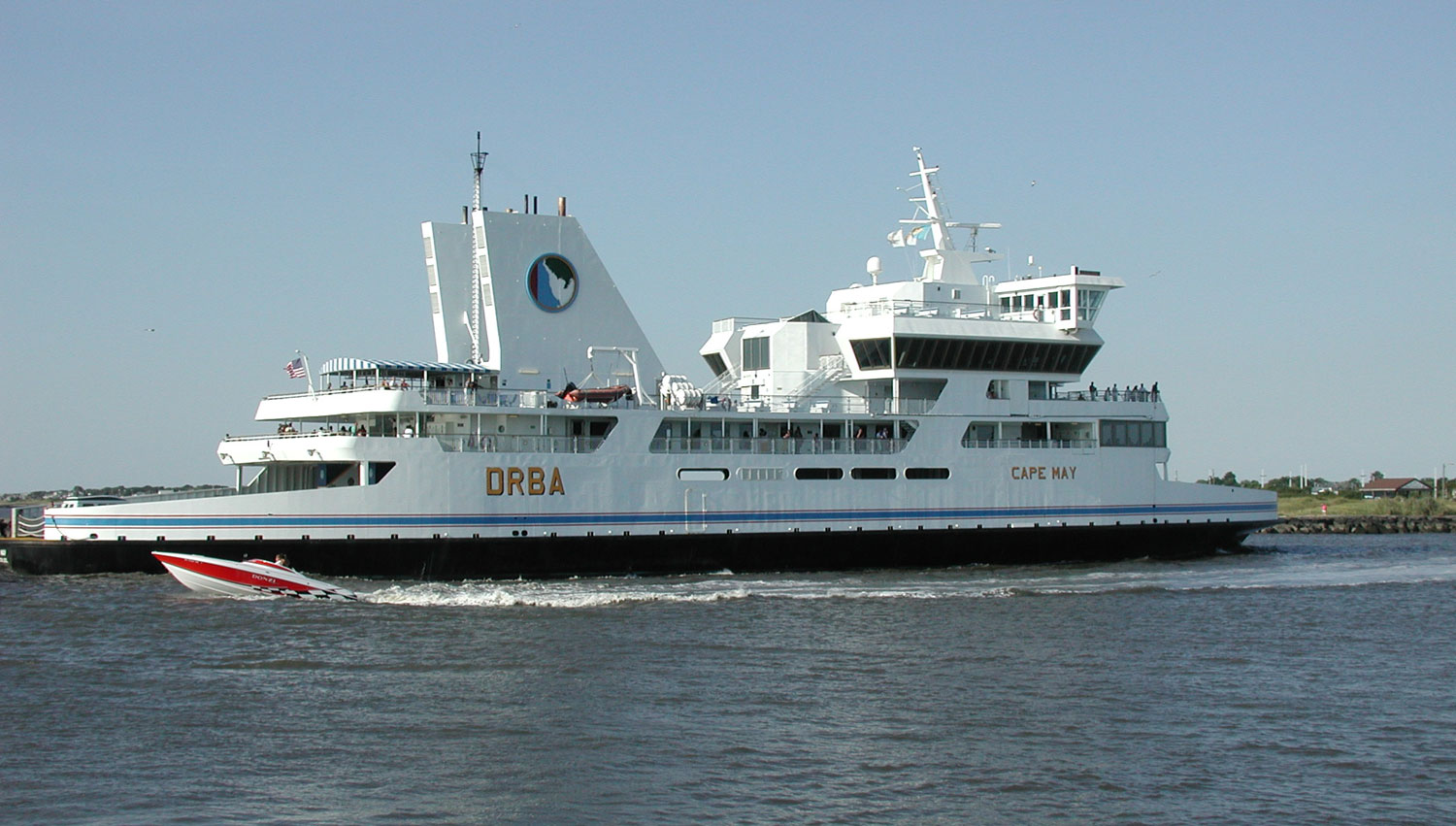 The M.V. Cape May entering the Cape May, New Jersey, terminal, on August 10, 2002. Photo by Adam Gilson.